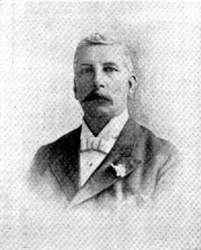 James Lockhart Stevenson was the mayor of Wanganui, New Zealand, in 1896-97